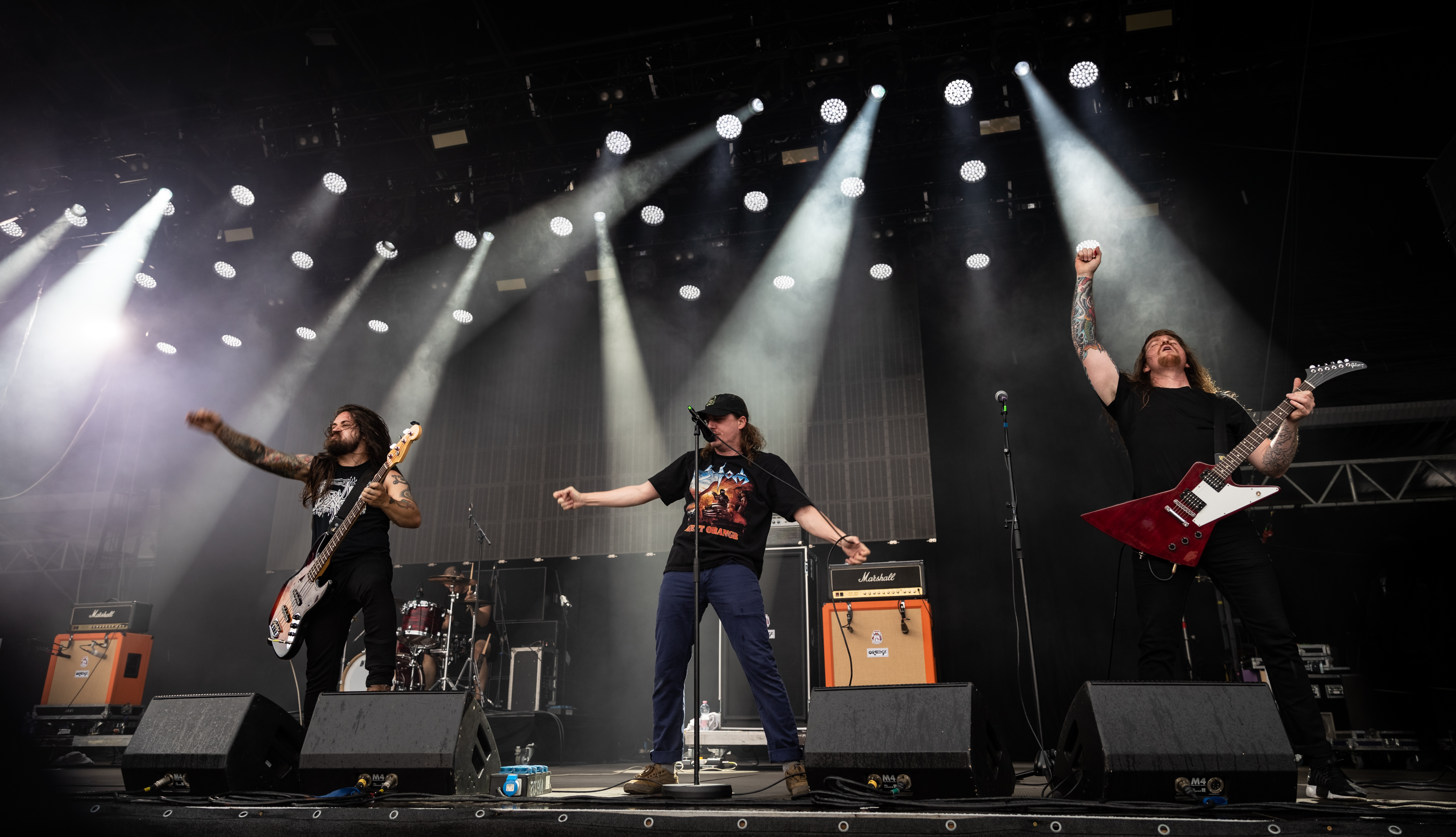 Power Trip - Rock am Ring 2019